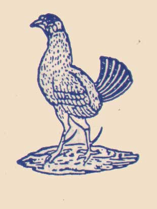 Logotype for Norrkopings Bumullsvafveri.